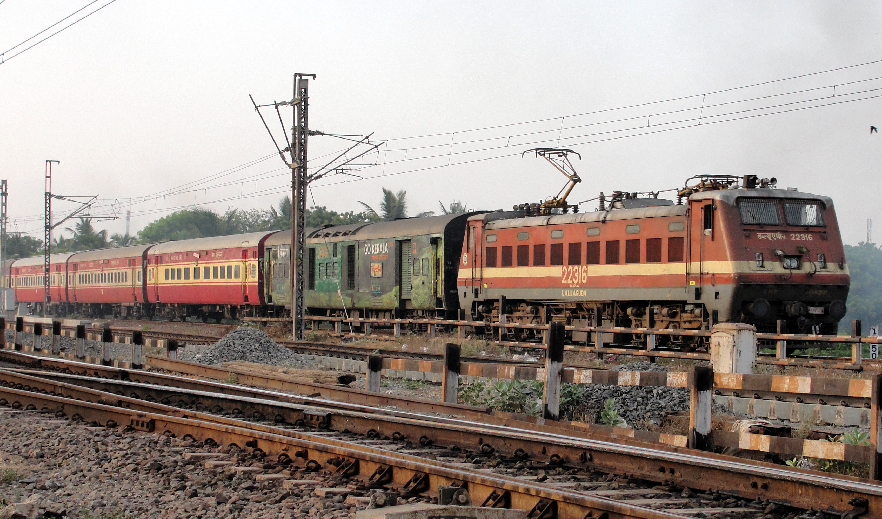 Chennai Rajdhani near Ennore